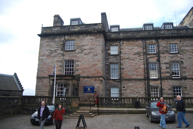 Edinburgh Castle - Royal Scots Dragoon Guards Museum. NT2573 :: Edinburgh Castle - Royal Scots Dragoon Guards Museum, near to Edinburgh, Great Britain